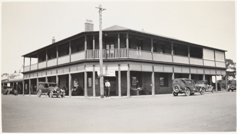 Commercial Hotel, cnr Railway Rd and Thomas St, Three Springs, Western Australia. Building extant in 2019.